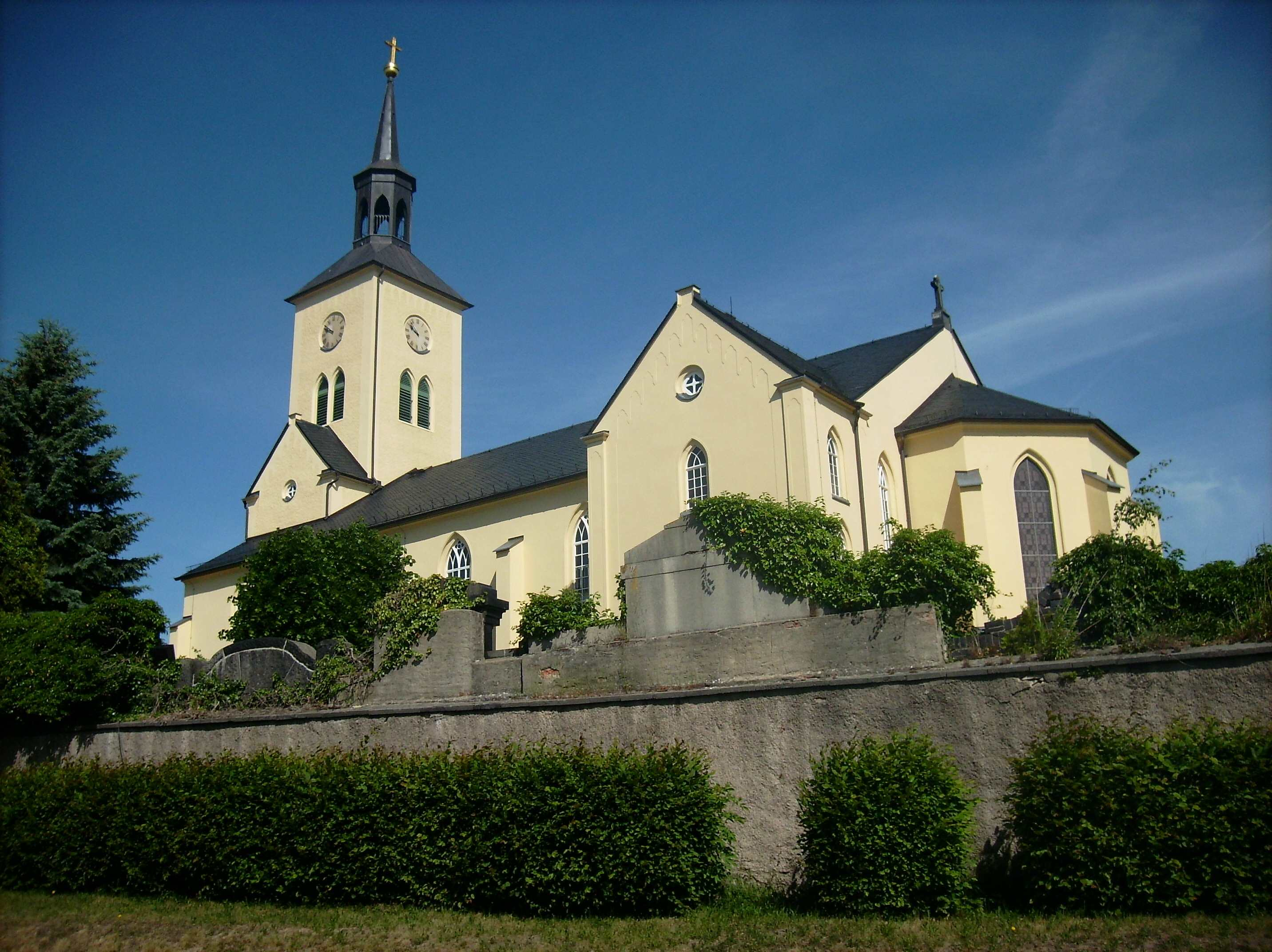 St. Mary's Church in Etzdorf (Striegistal, Mittelsachsen district, Saxony)